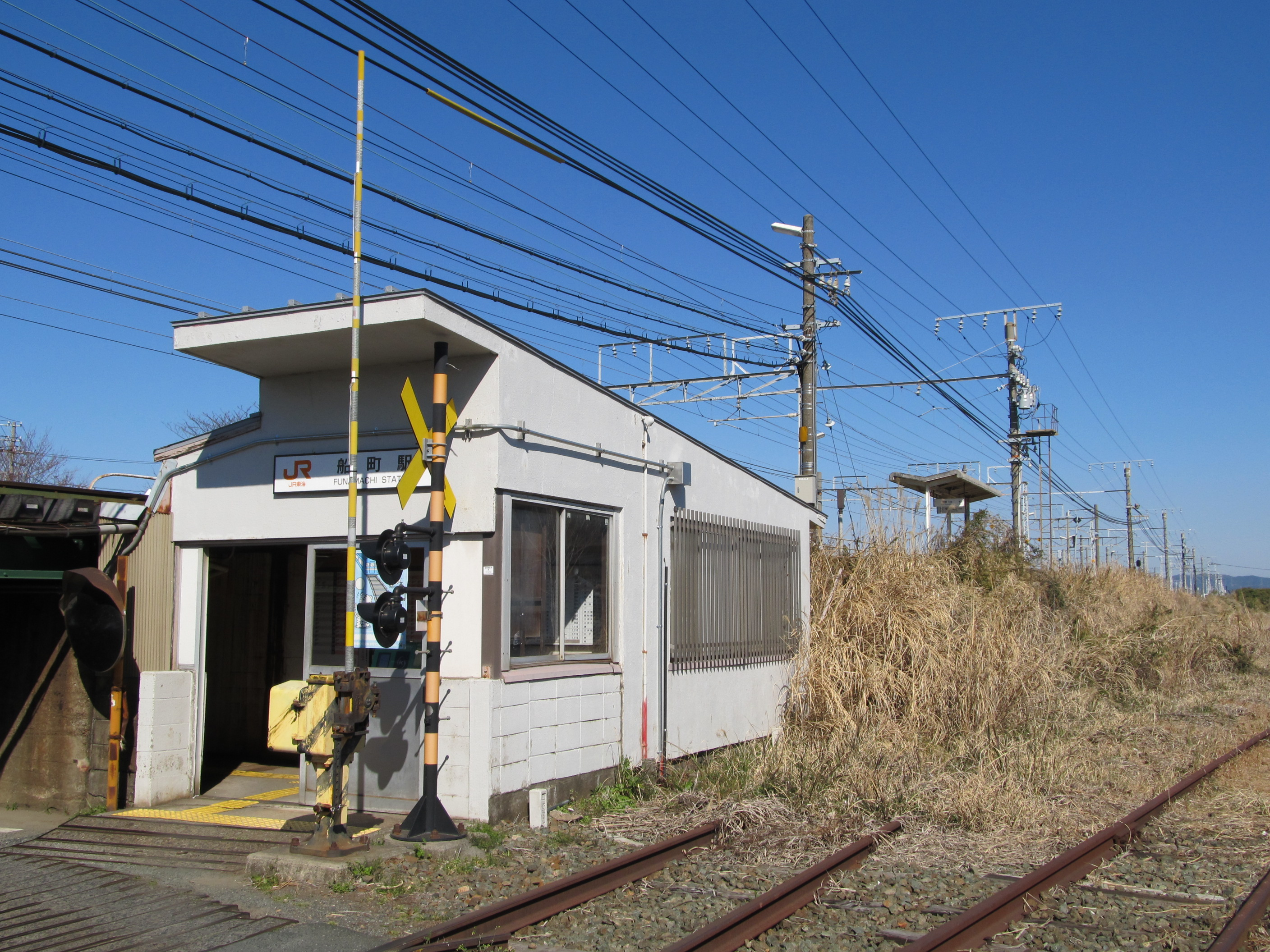 Central Japan Railway Iida Line Funamachi Station Building